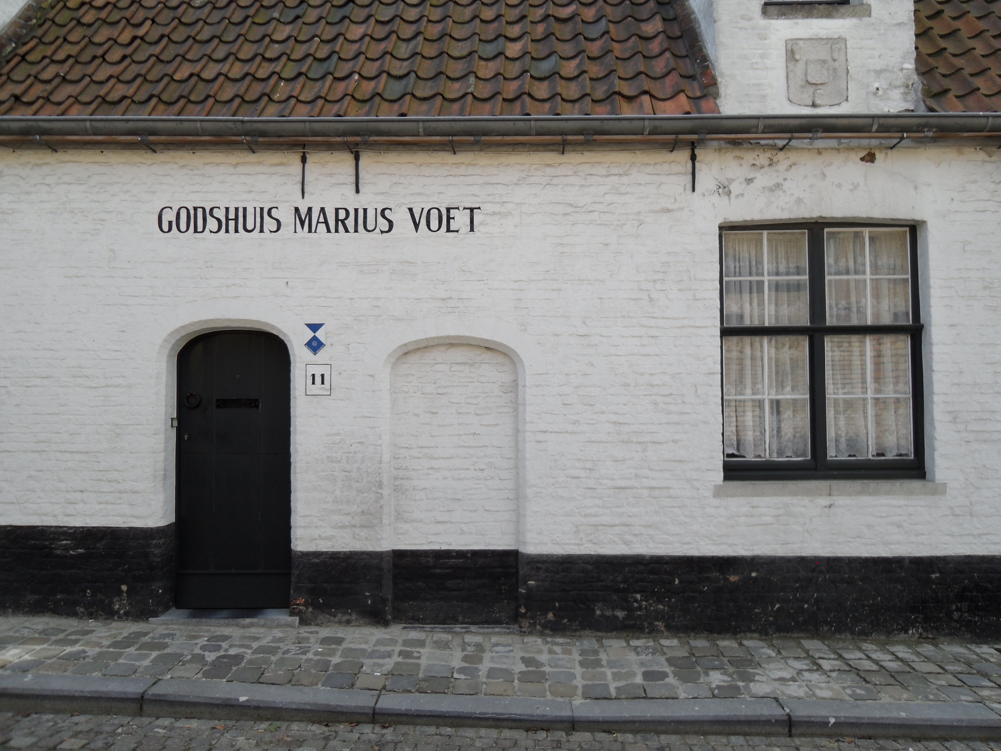 Marius Voet